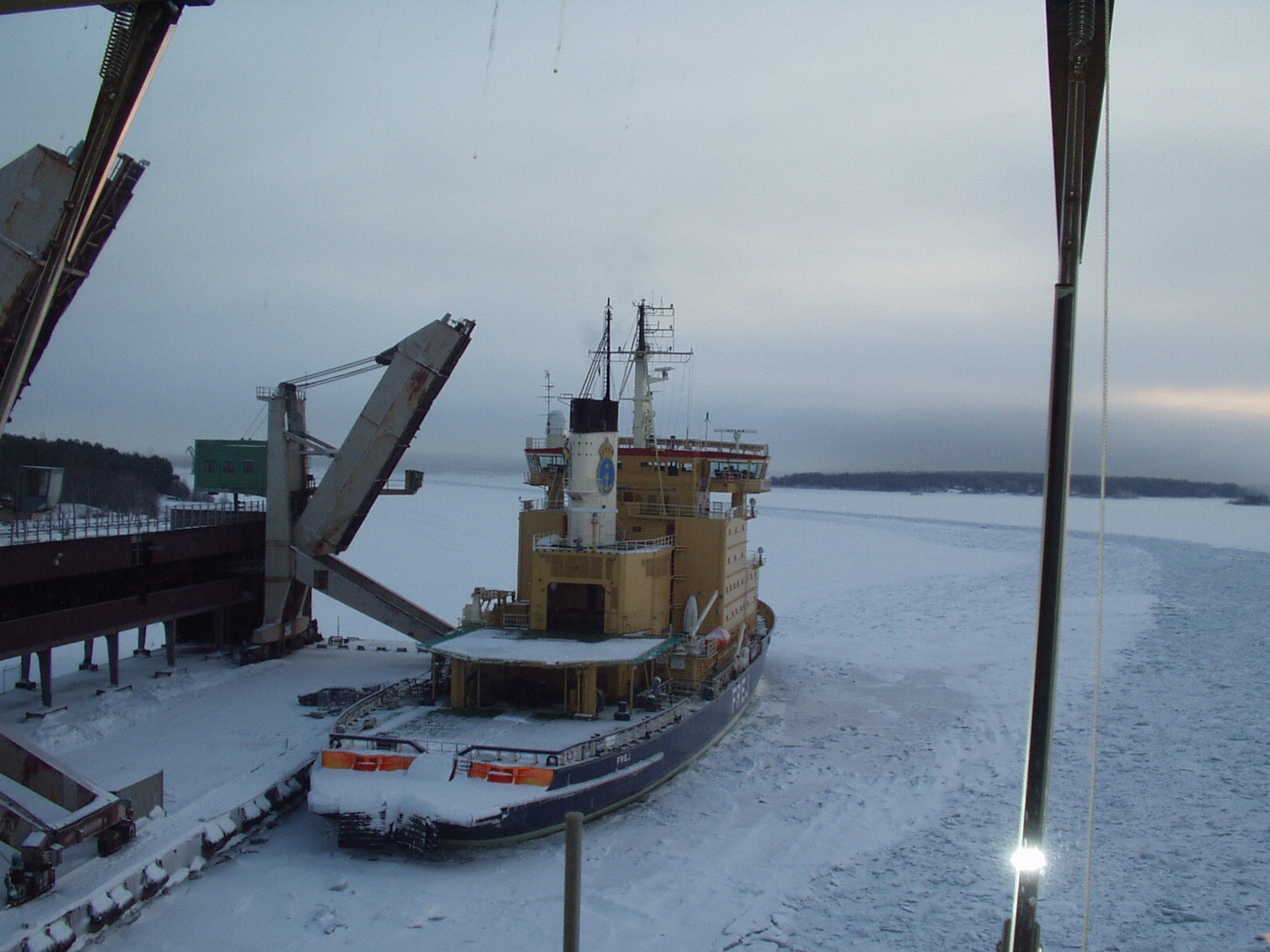 Swedish icebreaker Frej, SBPT, IMO: 7359668, in Luleå